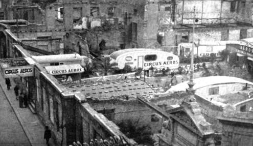 Zirkus Aeros 1945 in Leipzig